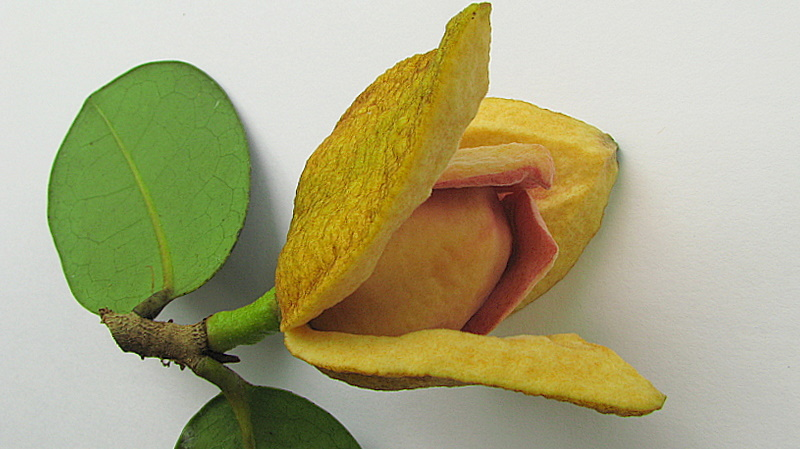 A common species in the restinga area of Bahia, Brazil.